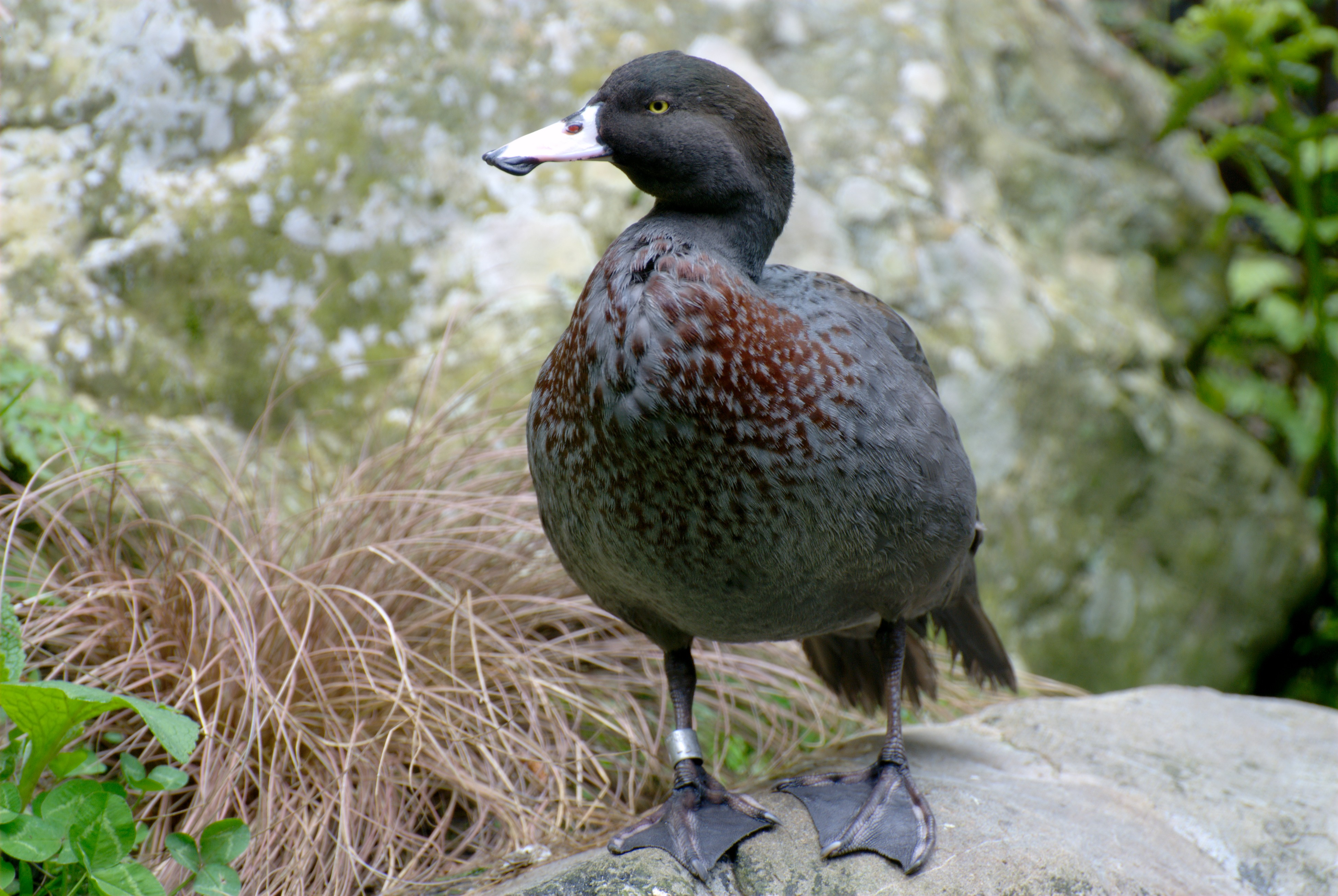 Whio (Blue Duck, Hymenolaimus malacorhynchos) at Staglands in Akatarawa, New Zealand